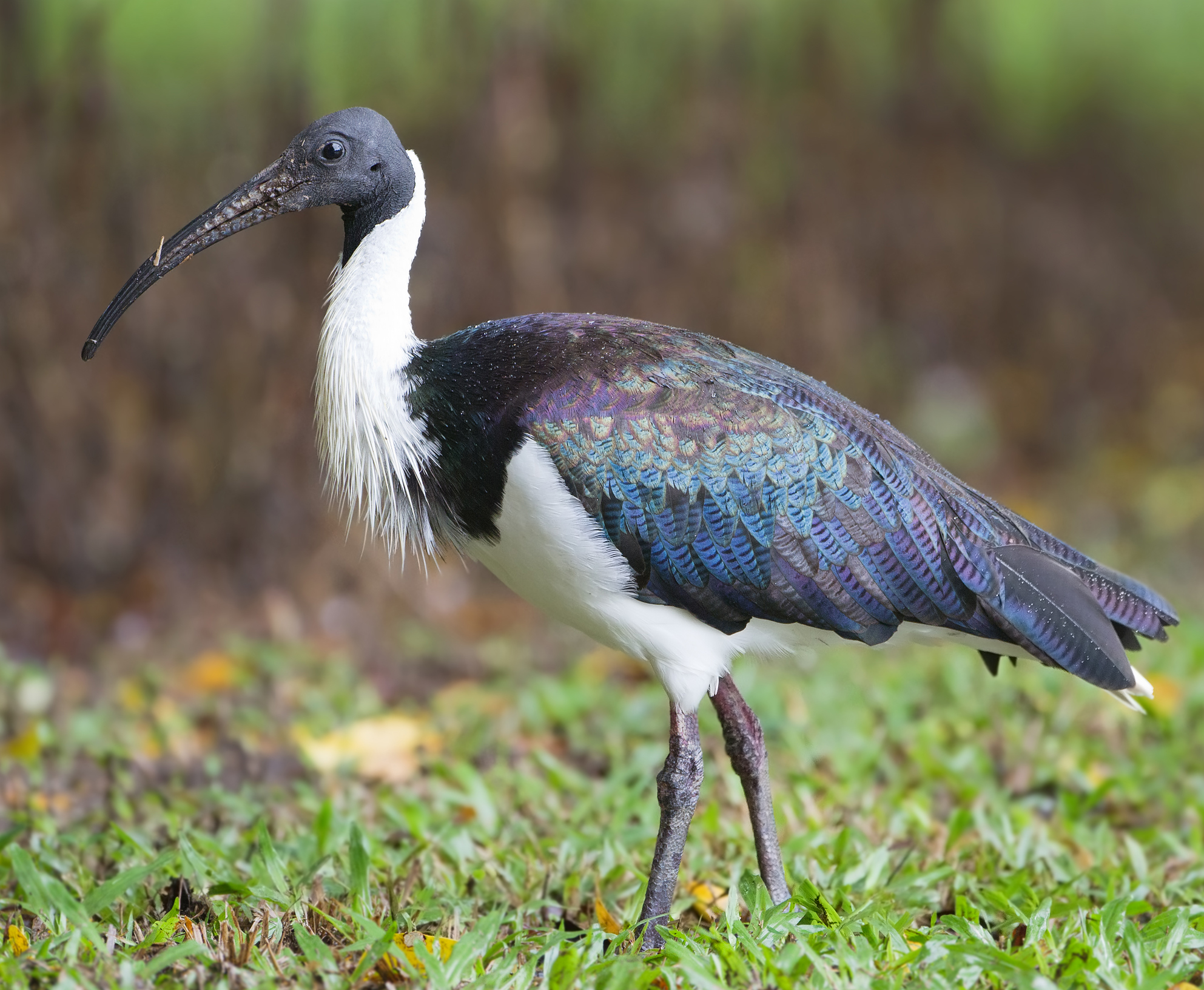 Straw-necked Ibis (Threskiornis spinicollis), Centenary Lakes, Cairns, Queensland, Australia